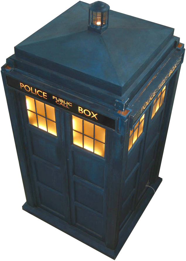 Transparentised version of Image:TARDIS.jpg. Licensing it under the same license so as to avoid issues.